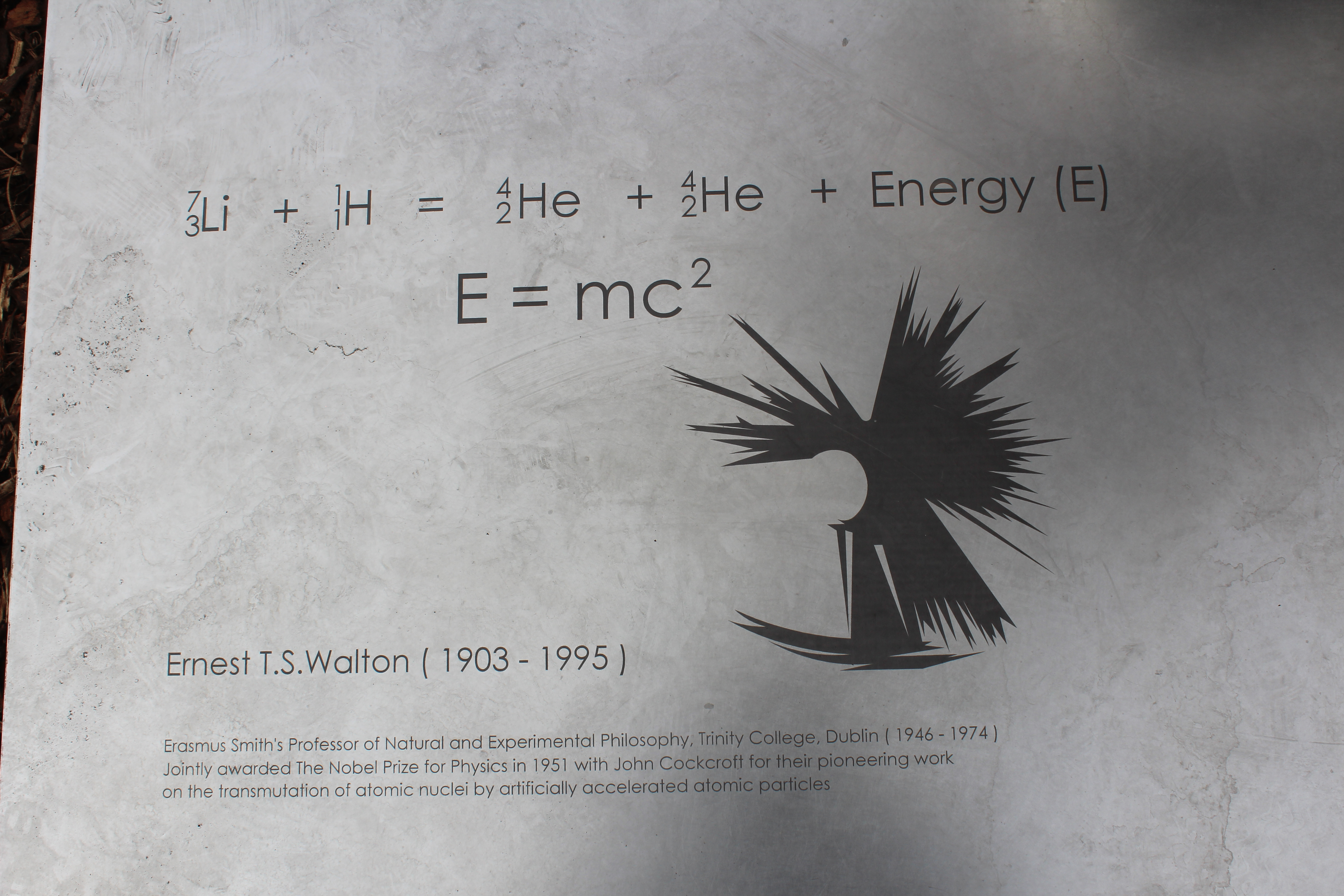 Description on the plinth of the Ernest Walton Memorial, Trinity College, Dublin.